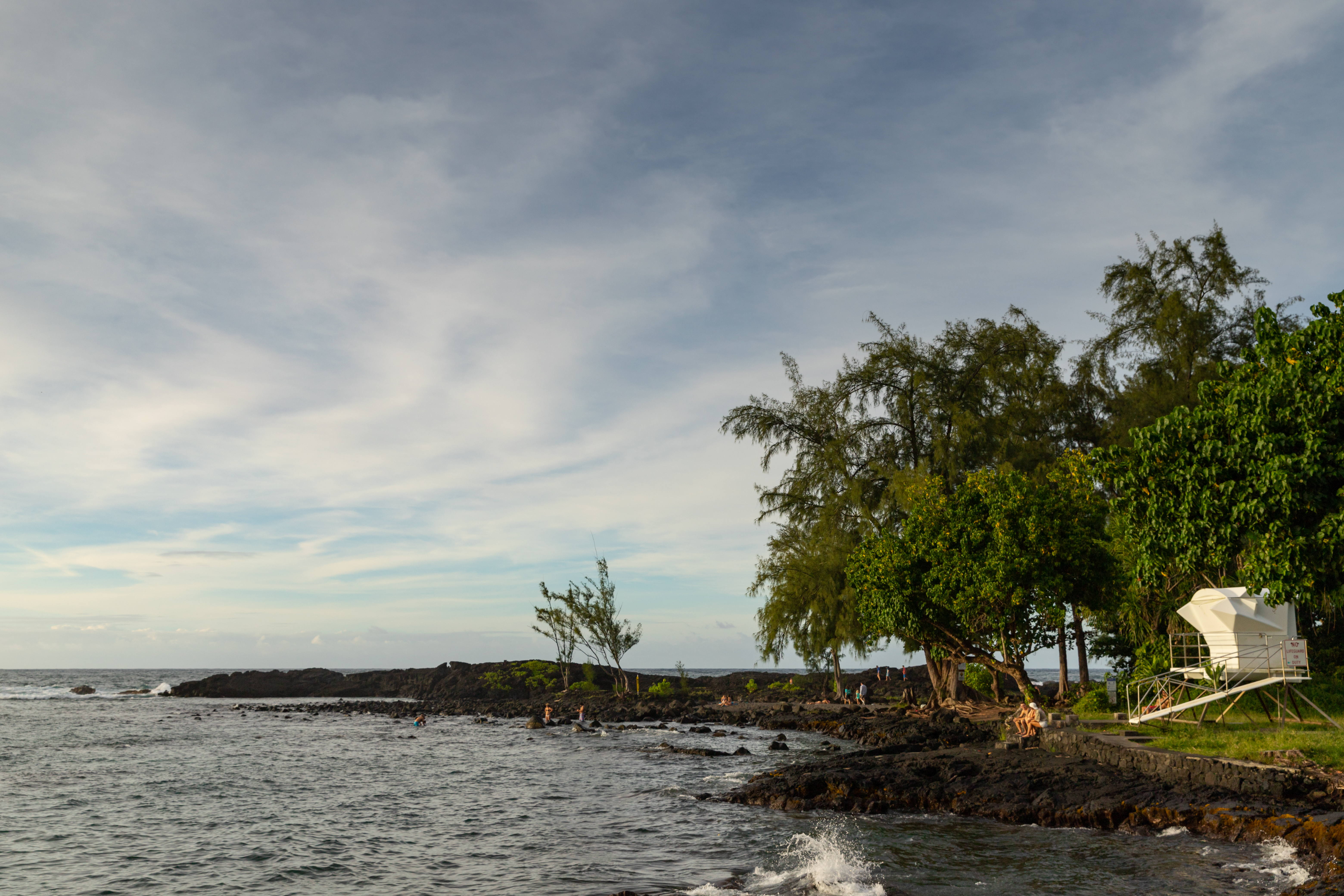 Black sand beach Hilo Big island, Hawaii